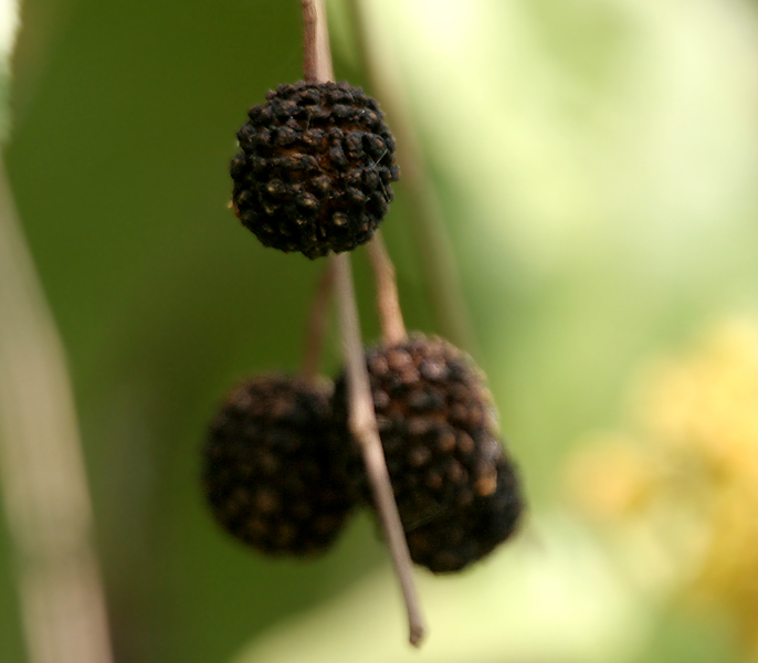 West india elm, Pigeon wood or Bay/ Bastard cedar Guazuma ulmifolia in Sanjeevaiah Park, Hyderabad, India.